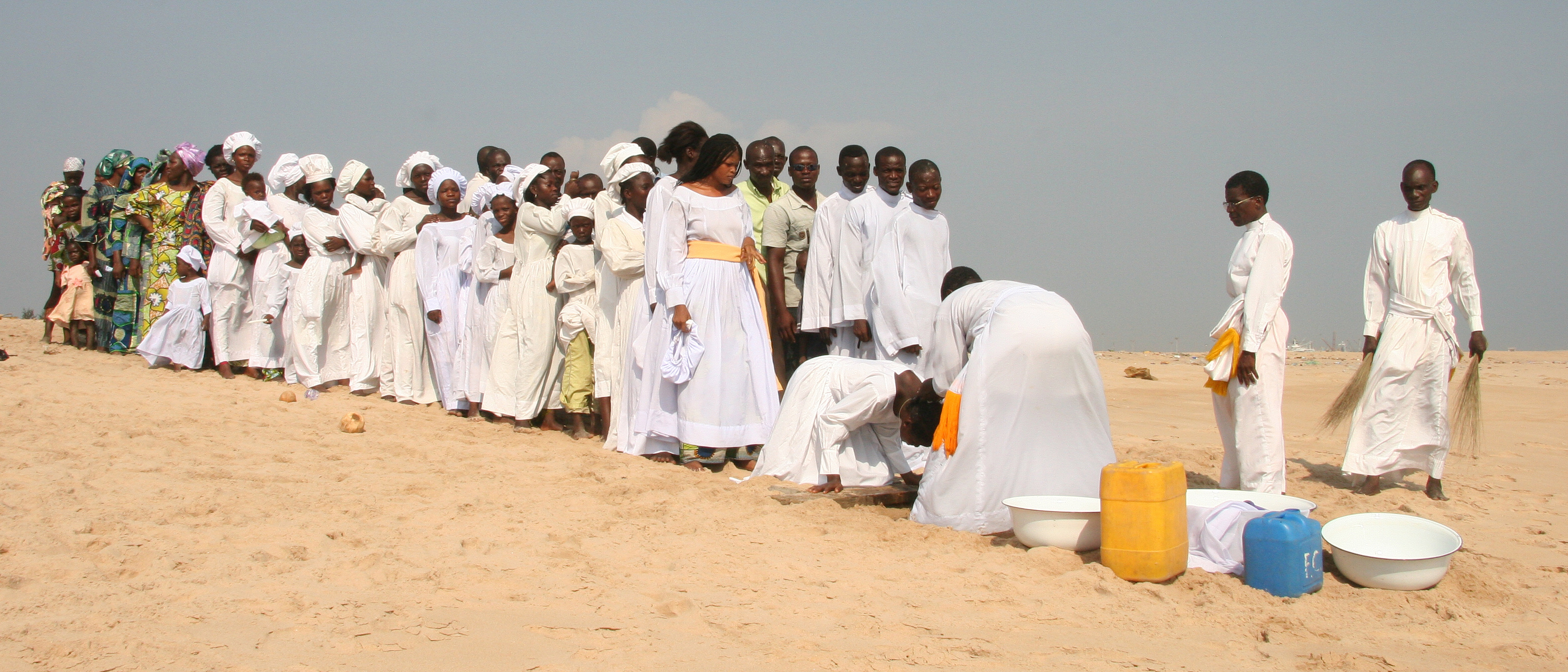 `L’église du Christianisme Céleste´ is a religion which started in Bénin in the middle of the past century by Samuel Joseph Biléou Oschoffa, a Béninois who had a revelation from God. The religion is based on Christianity, but there are some differences in presentation. All christians have a white dress (la soutane) and should be bare feet when wearing the dress.